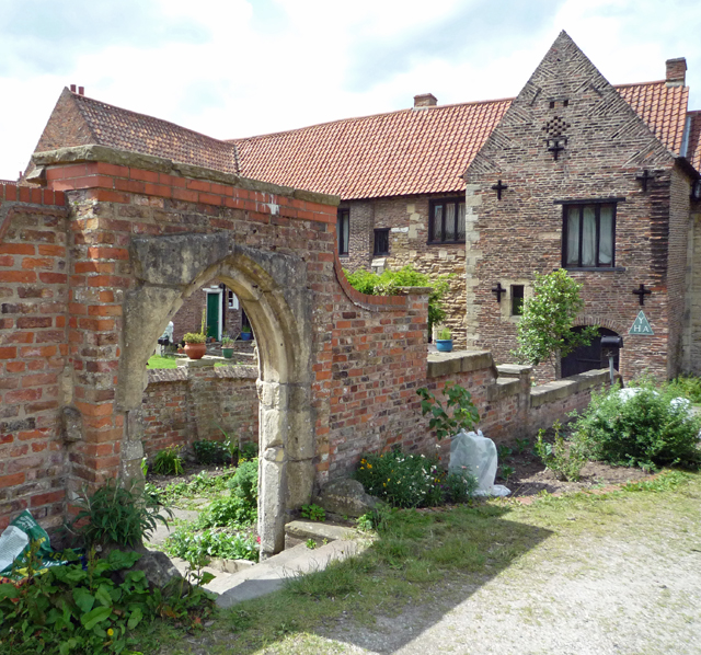 Beverley Friary, Beverley, East Riding of Yorkshire, England. The Friary was dissolved in 1539. It has been restored and is now a YHA hostel.